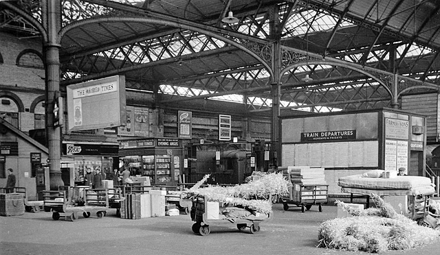 London Bridge Station, Central Section concourse. View just inside entrance to the Central Section station, showing the muddle left from the major war damage before the station was radically rebuilt in 1981.